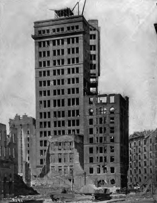 Photograph of the Chronicle Building in San Francisco after the 1906 earthquake and fire.